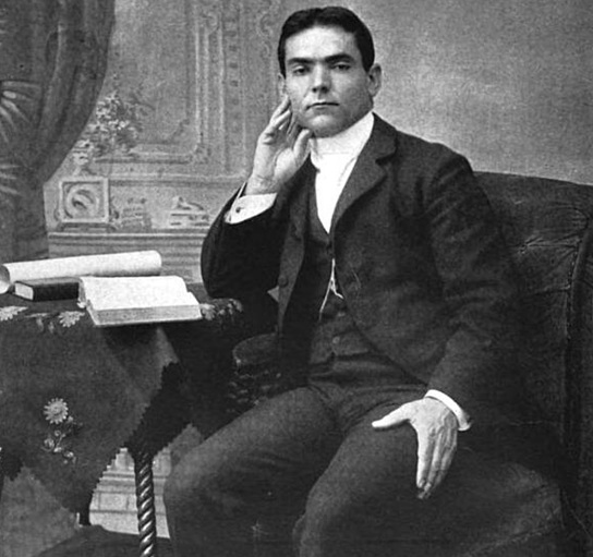 Isaac Adams (1872-1942), one of Iran's first western educated physicians. An Assyrian, he is also the founder of Canada's Nestorian Christian community.